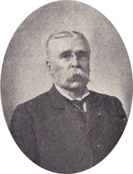 Photo of Luigi Palma di Cesnola, American Civil War Medal of Honor recipient from Deeds of valor; how America's heroes won the Medal of Honor, published in 1901.